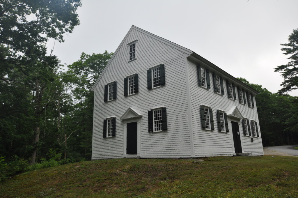 The Walpole Meetinghouse, South Bristol, Maine.